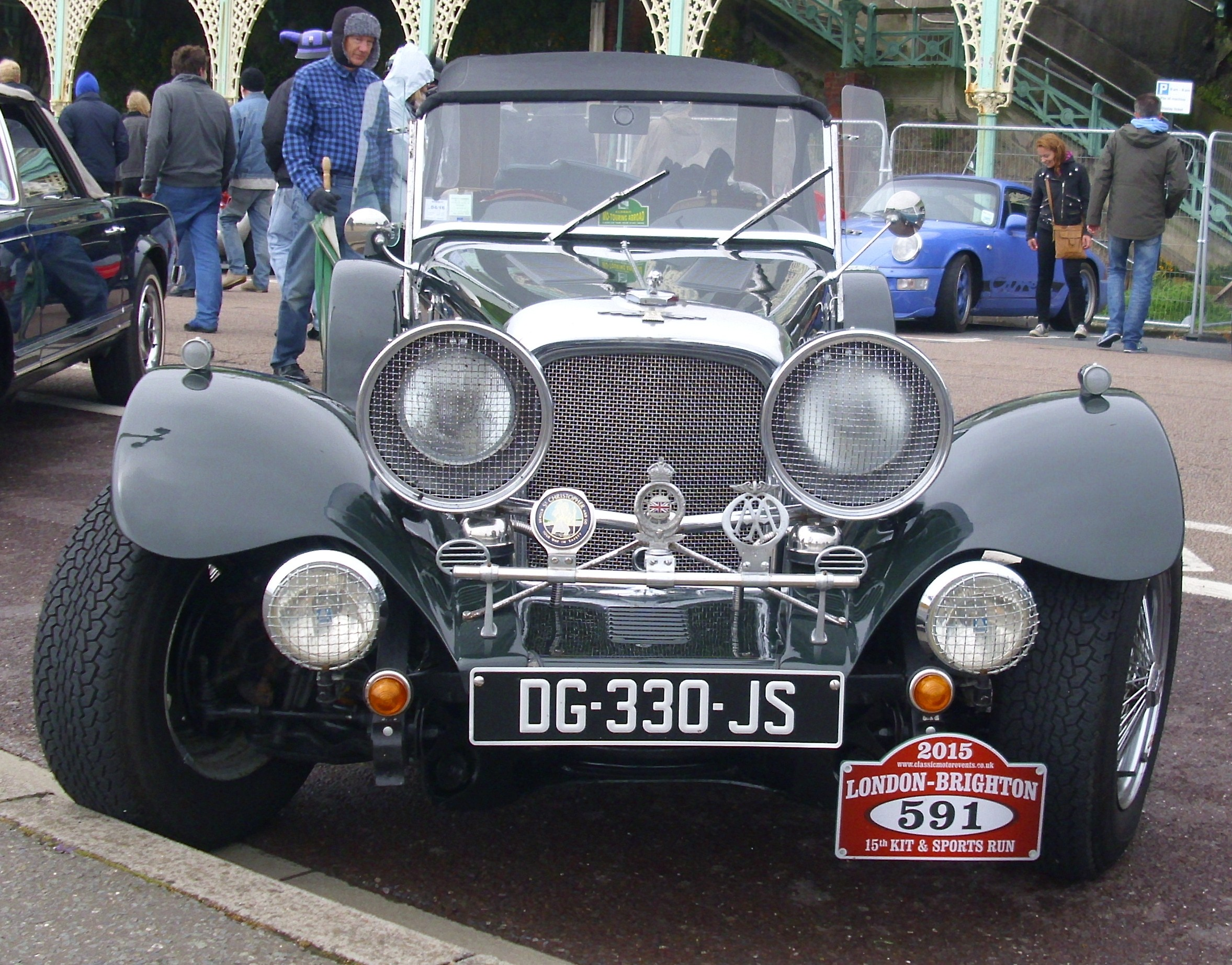 Carisma Century